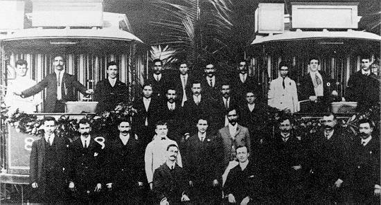 Electric trams inauguration, 1909.